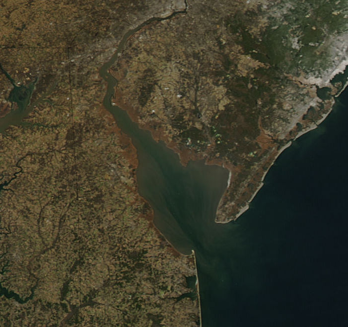 Satellite photo of the Delaware Bay — in Delaware.